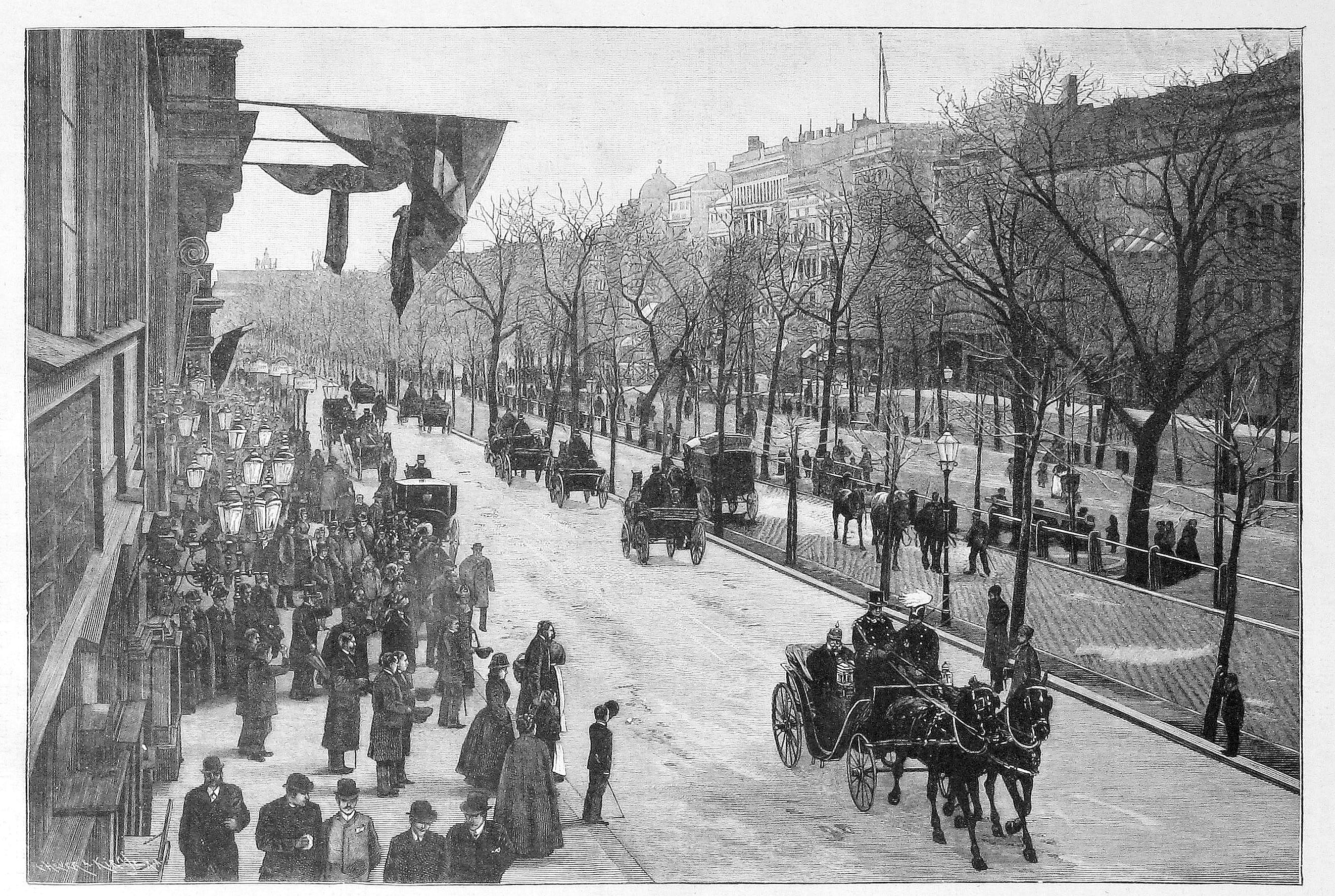 Image from page 213 of journal Die Gartenlaube, 1886.